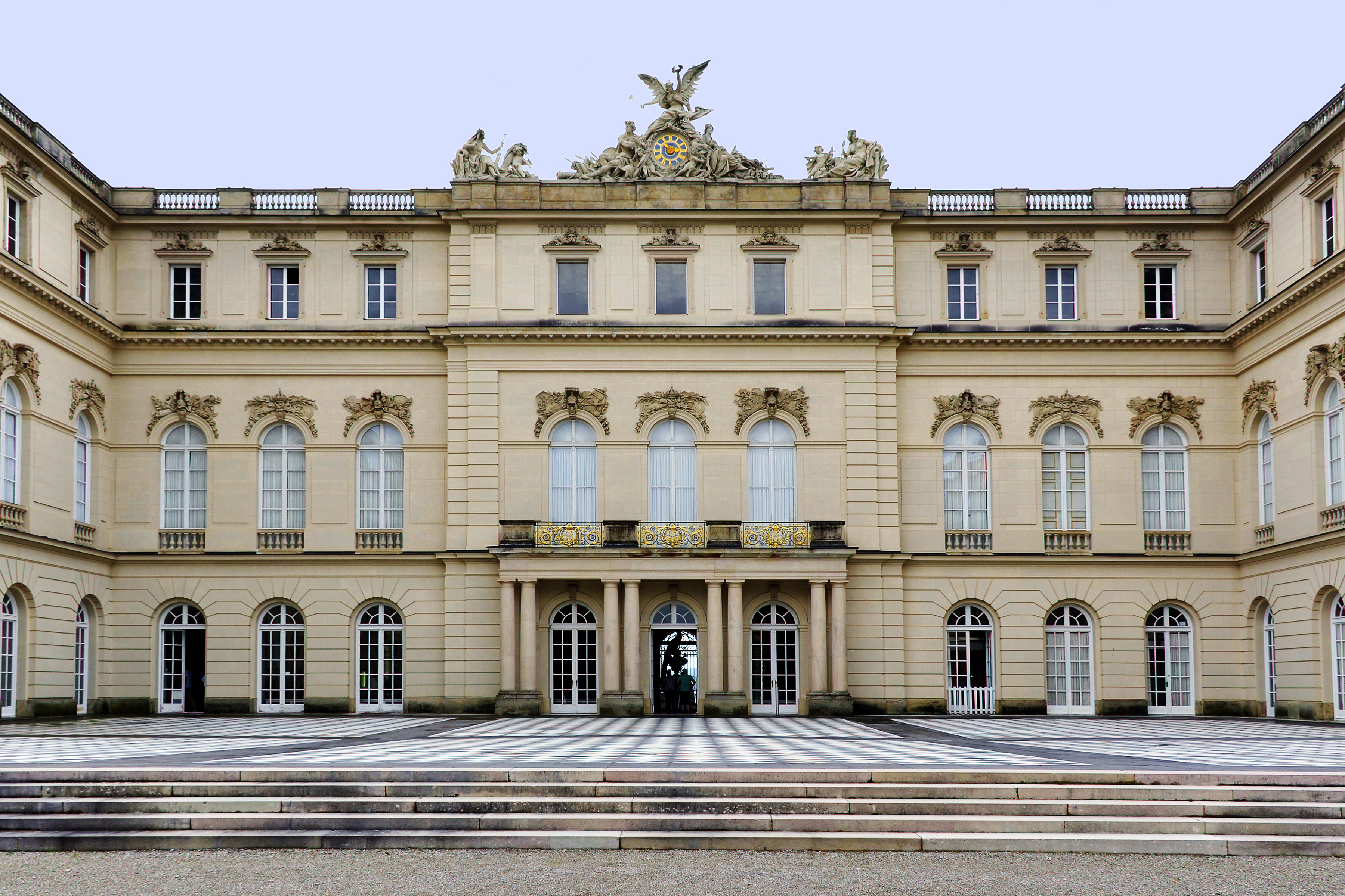 This is a photograph of an architectural monument.